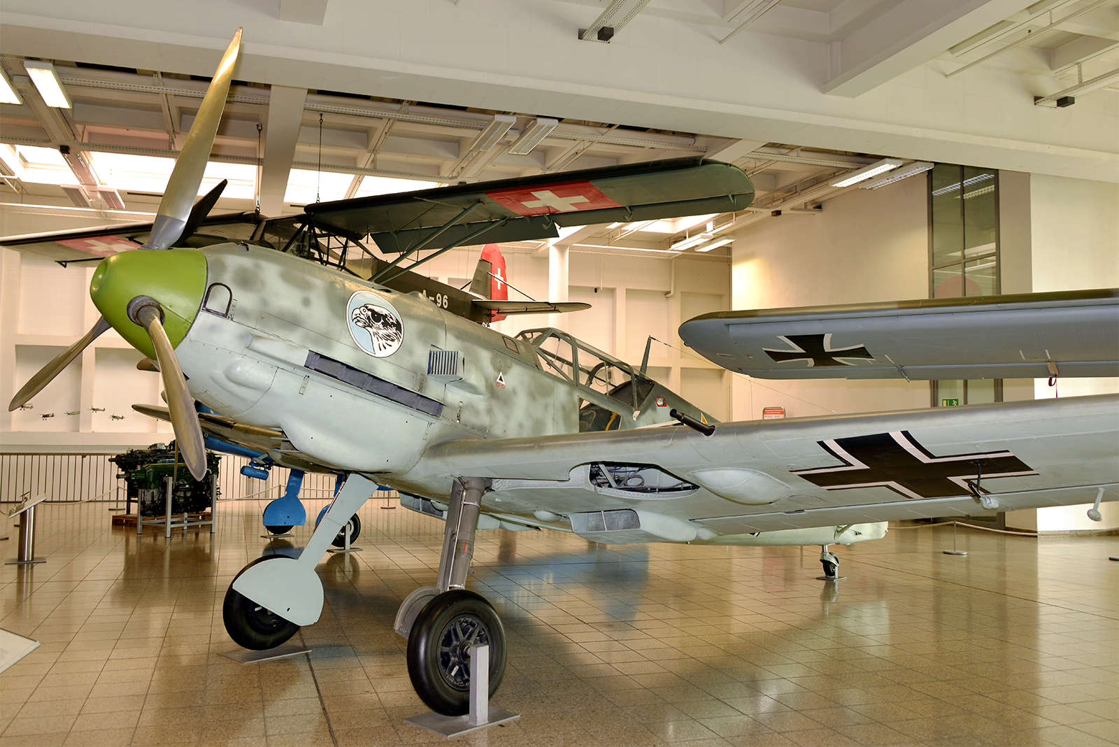 Bf-109E-3 of JG 51 'Mölders' at Deutsches Museum München.